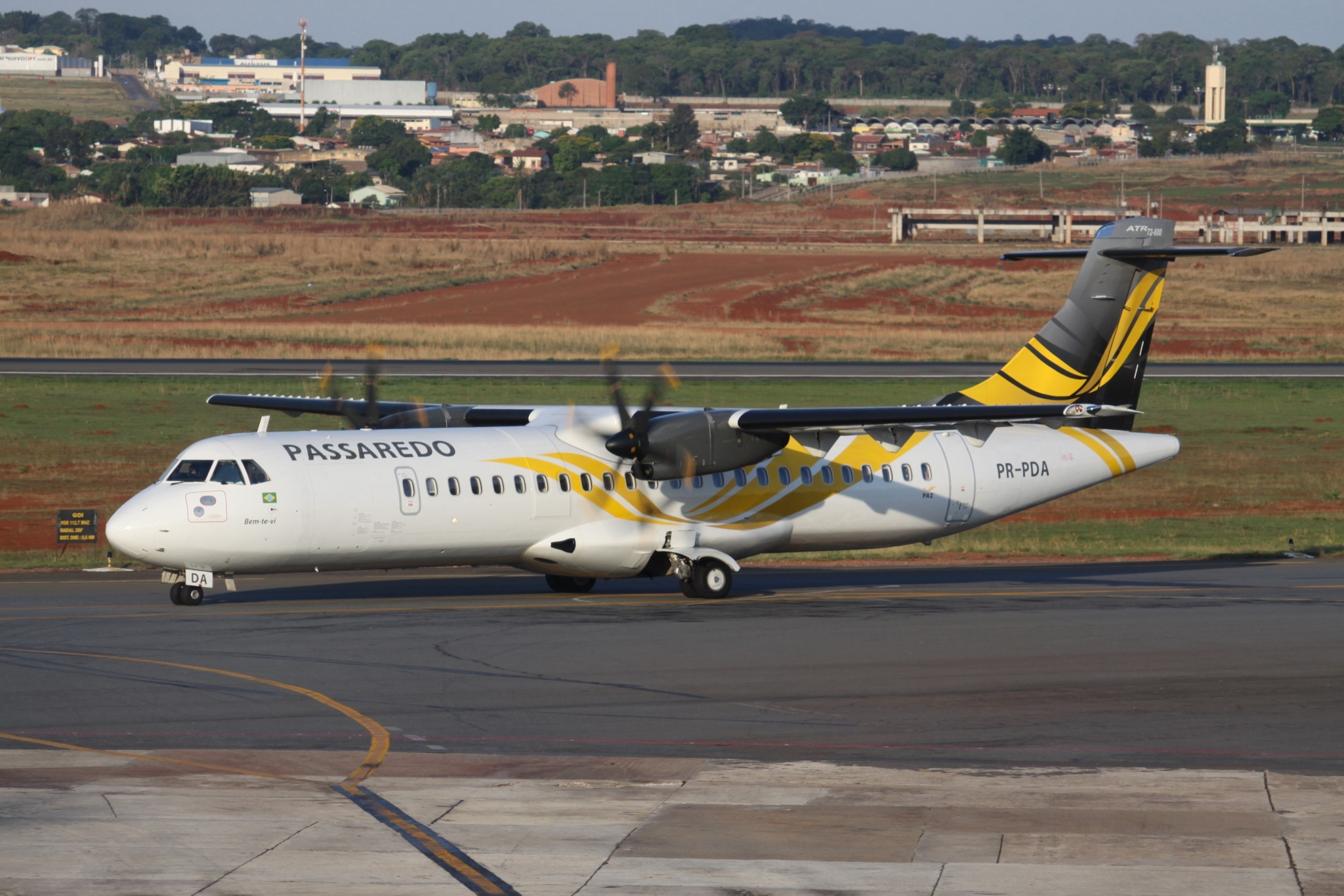 At Goiania Airport